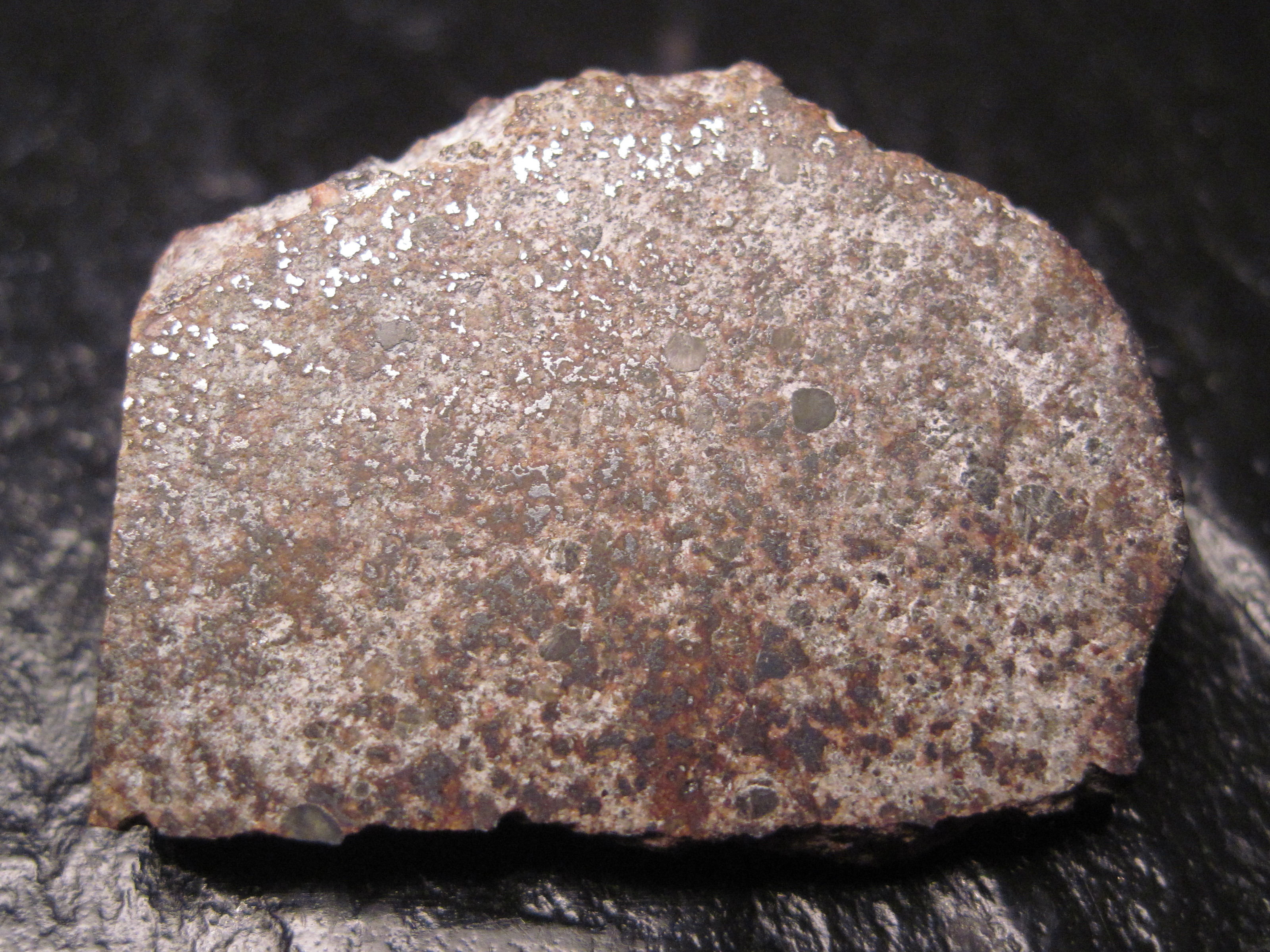 Arbol Solo meteorite is an H5 chondrite with a very low TKW of 810 grams. It fell on September 11, 1954 in San Luis, Argentina. 5.38 gram partial slice.